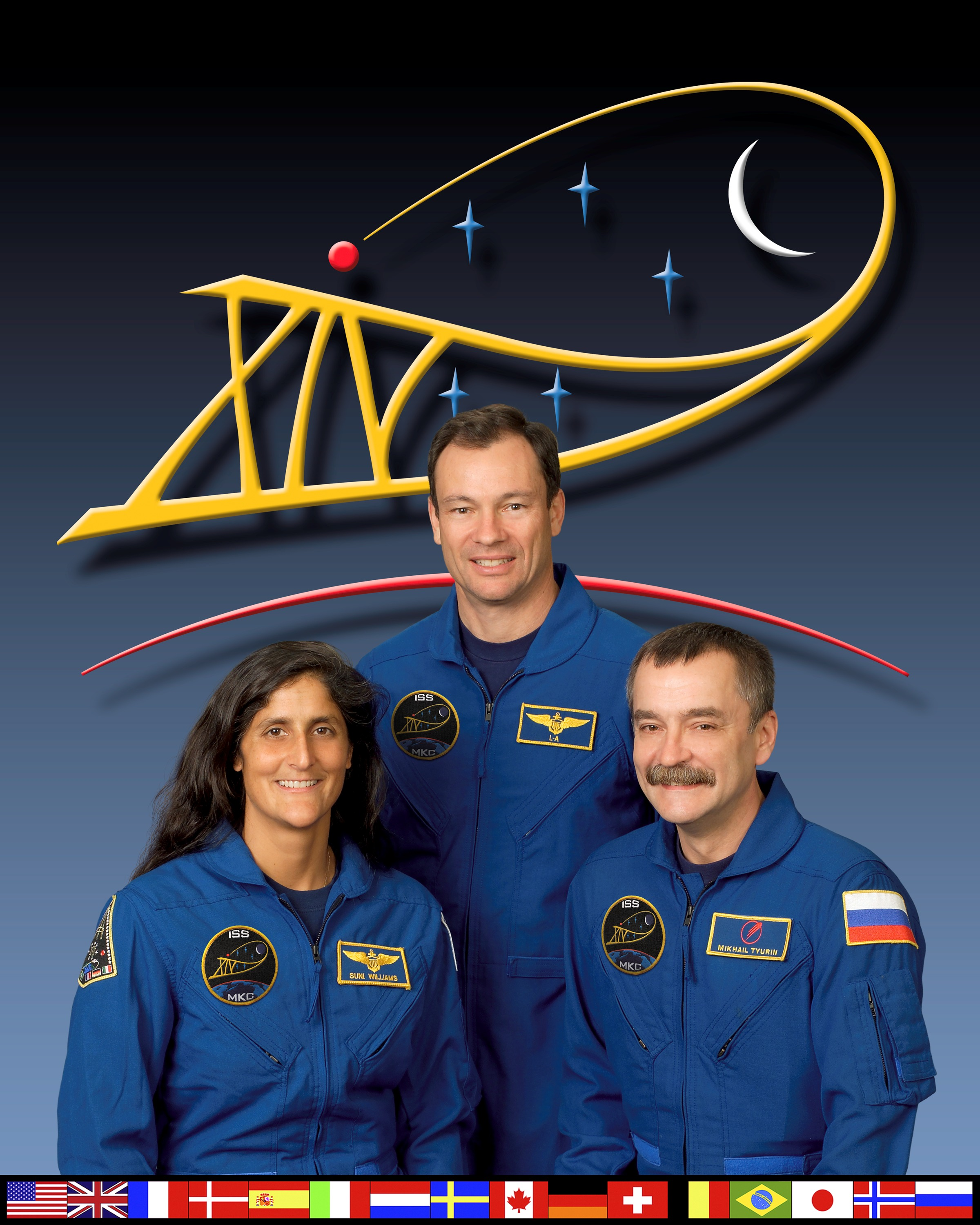 ISS014-S-002A (30 March 2006) --- Astronaut Michael E. Lopez-Alegria (center), Expedition 14 commander and NASA space station science officer; cosmonaut Mikhail Tyurin (right), flight engineer representing Russia's Federal Space Agency; and astronaut Sunita L. Williams, flight engineer, take a break from training at Johnson Space Center to pose for a crew portrait.